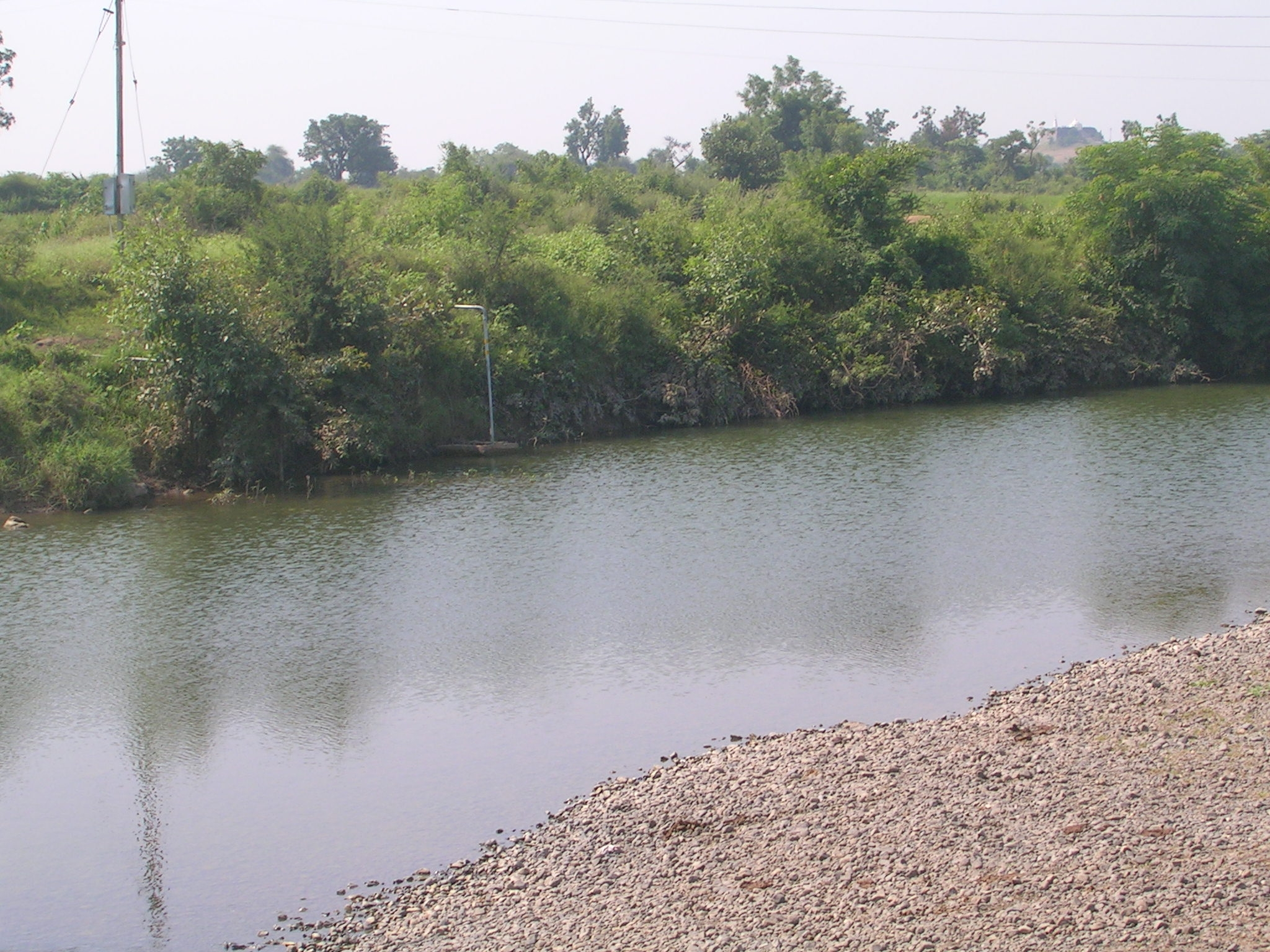 Photo ofAdan River in Maharashtra in Central India. Photograph taken by Nilesh Heda